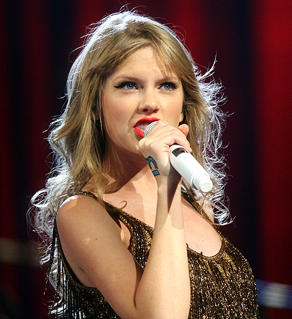 Taylor Swift - Speak Now Tour Hots Sydney, Australia 2012.